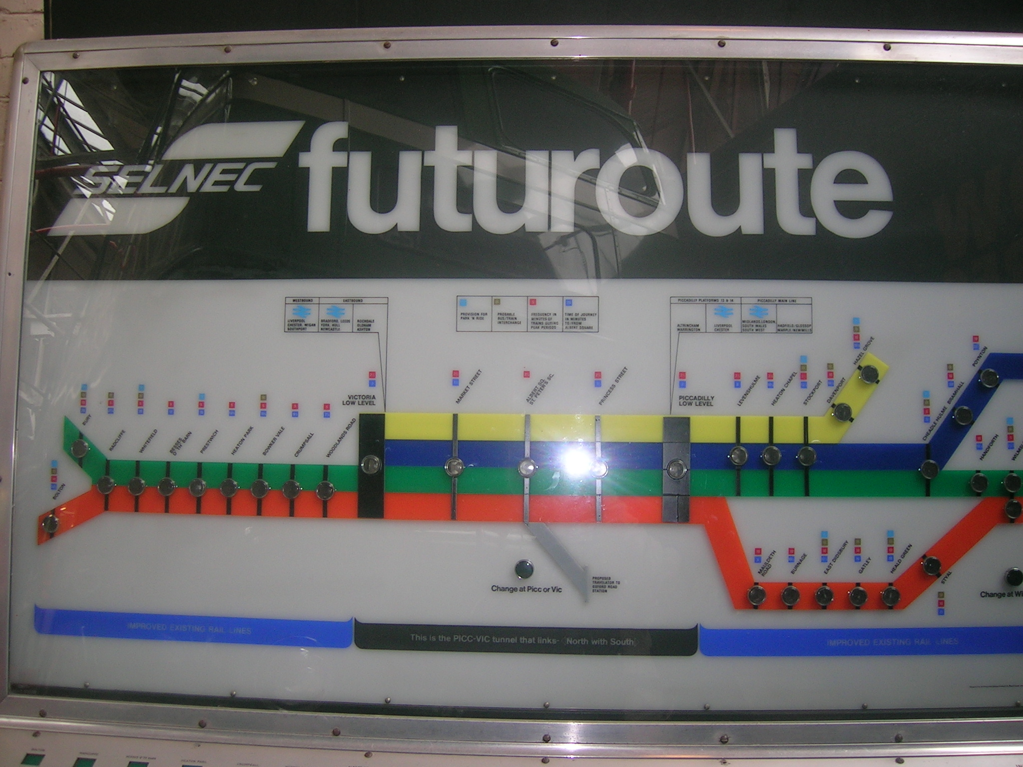 Early 1970s interactive electronic rail map display which was used to promote the now-abandoned Picc-Vic tunnel project in Manchester. The project aimed to build an underground railway line across the centre of Manchester, UK, linking the main railway terminals. It was abandoned in 1978. This display board is now in the collection of the Museum of Transport, Greater Manchester